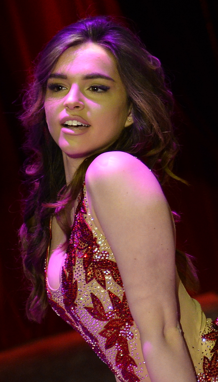 PR Foto Circus Roncalli GmbH Abdruck honorarfrei – Belegexemplar erbeten © Circus Roncalli Foto: Bertrand Guay